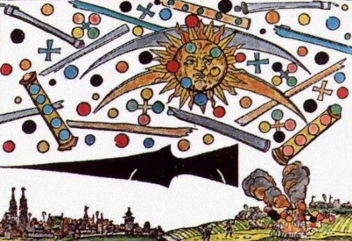 1561 celestial phenomenon over Nuremberg